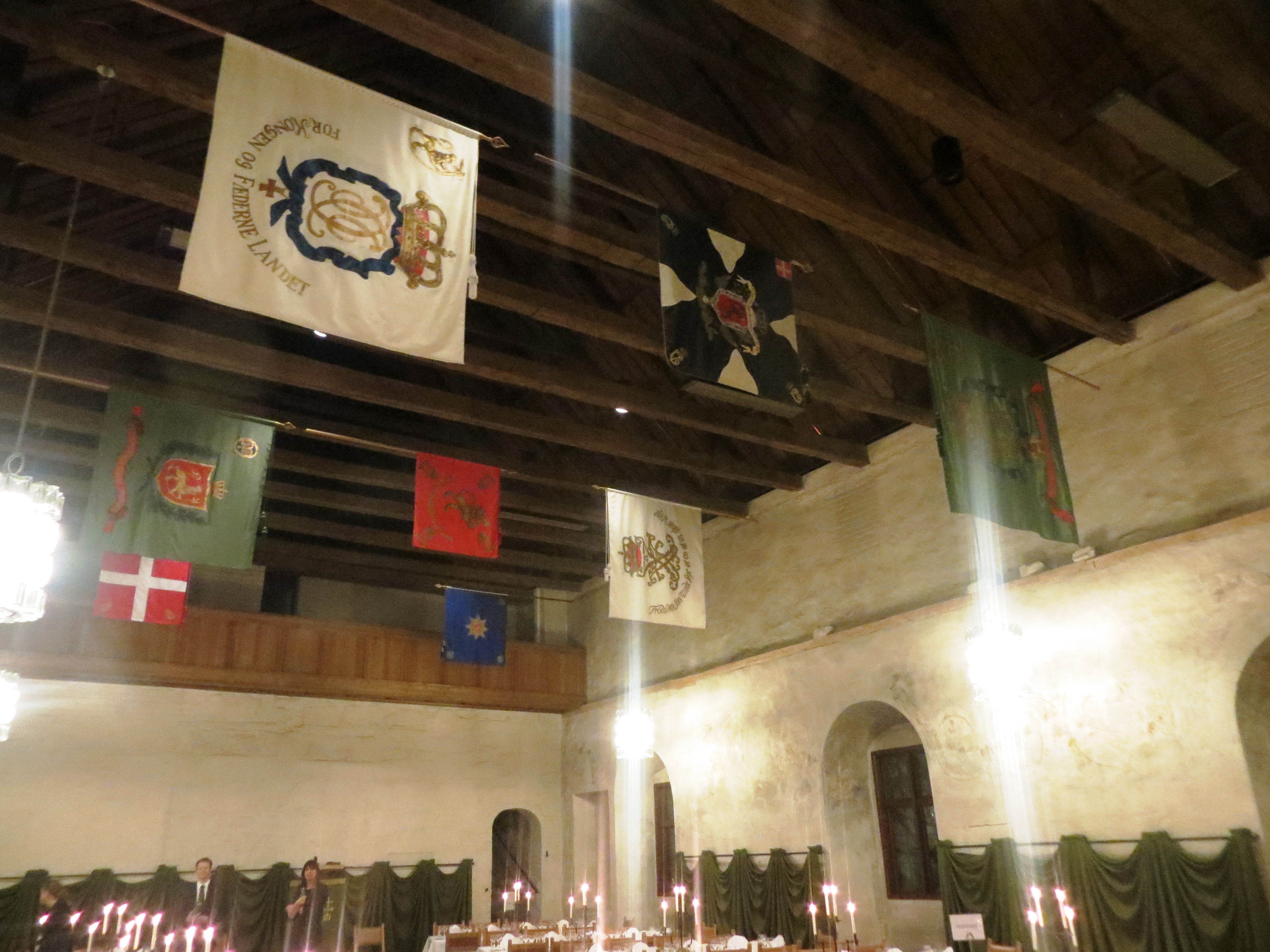 Erkebispegården (The Archbishop's Manor) in Trondheim, Norway